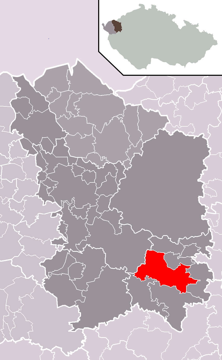 Location of Žlutice town within Karlovy Vary District and administrative area of Karlovy Vary as a Municipality with Extended Competence.